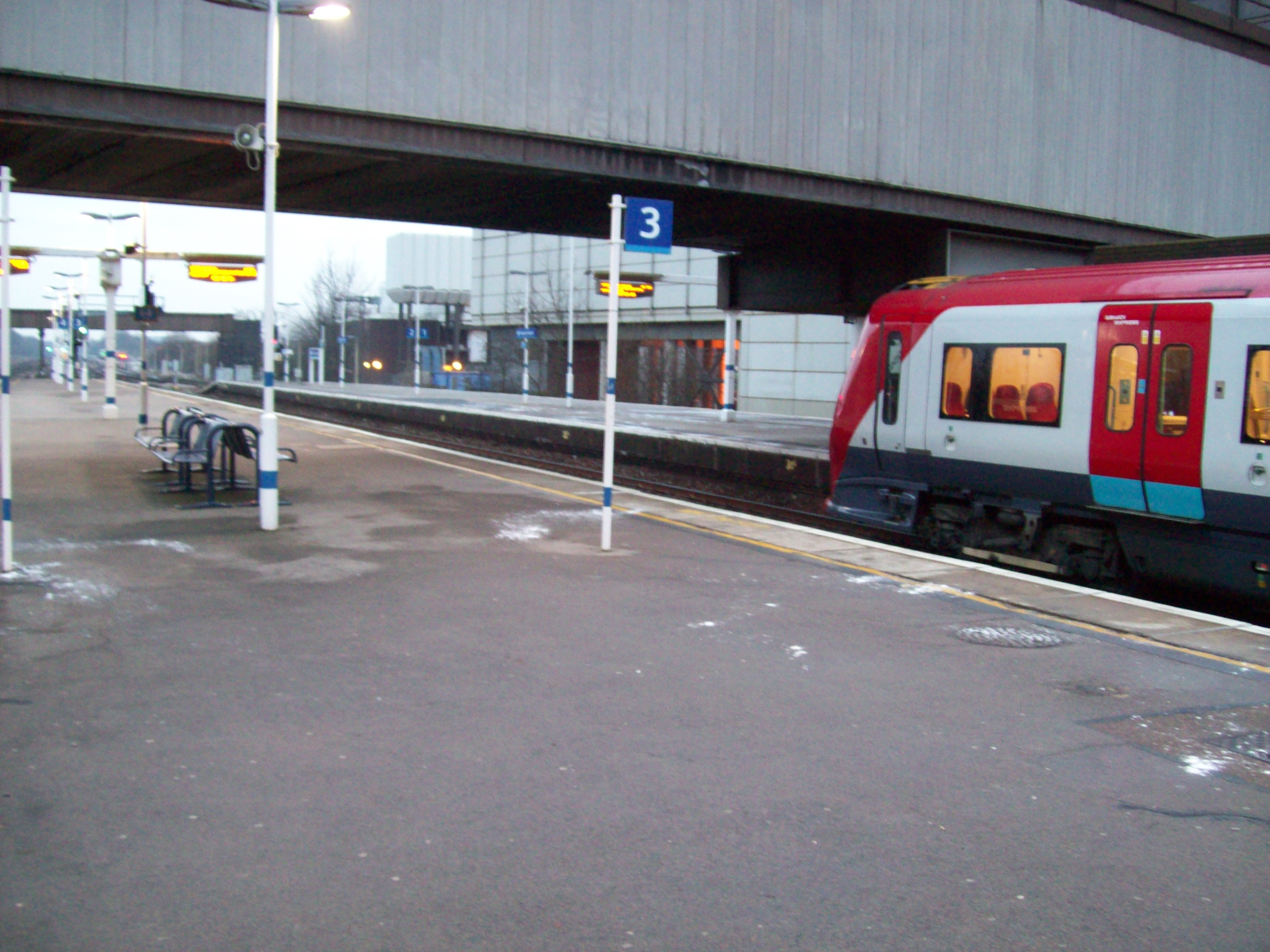 Gatwick Airport Railway station - southern end (direction towards Brighton) showing a Gatwick Express train